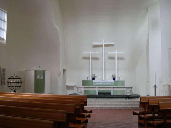 Altar of the Church of the Three Crosses (Kolmen Ristin kirkko in Finnish) in Imatra, Finland. The church has been designed by architect Alvar Aalto, and it has been built in 1957–1958.